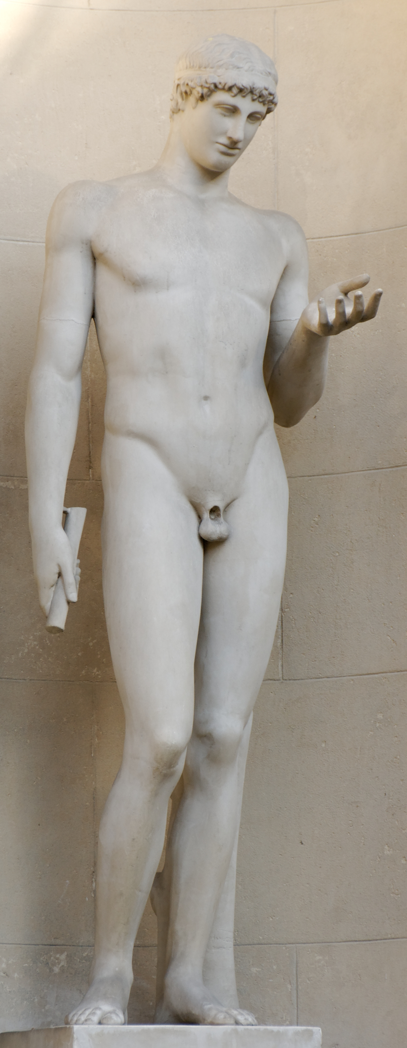 So-called “Stephanos Athlete”. Plaster cast after the antique statue from the Villa Albani, electic composition of the late Hellenistic era.